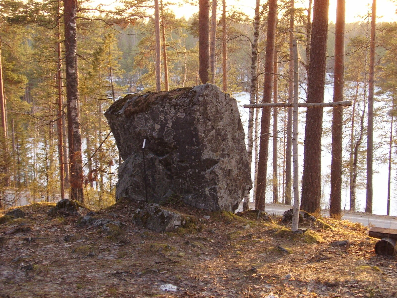 Pastor stand up this stone and preach Christianity to to people about century 1200-1500. The stone is in Lautaporras, Tammela, Finland, by the lake Torajärvi